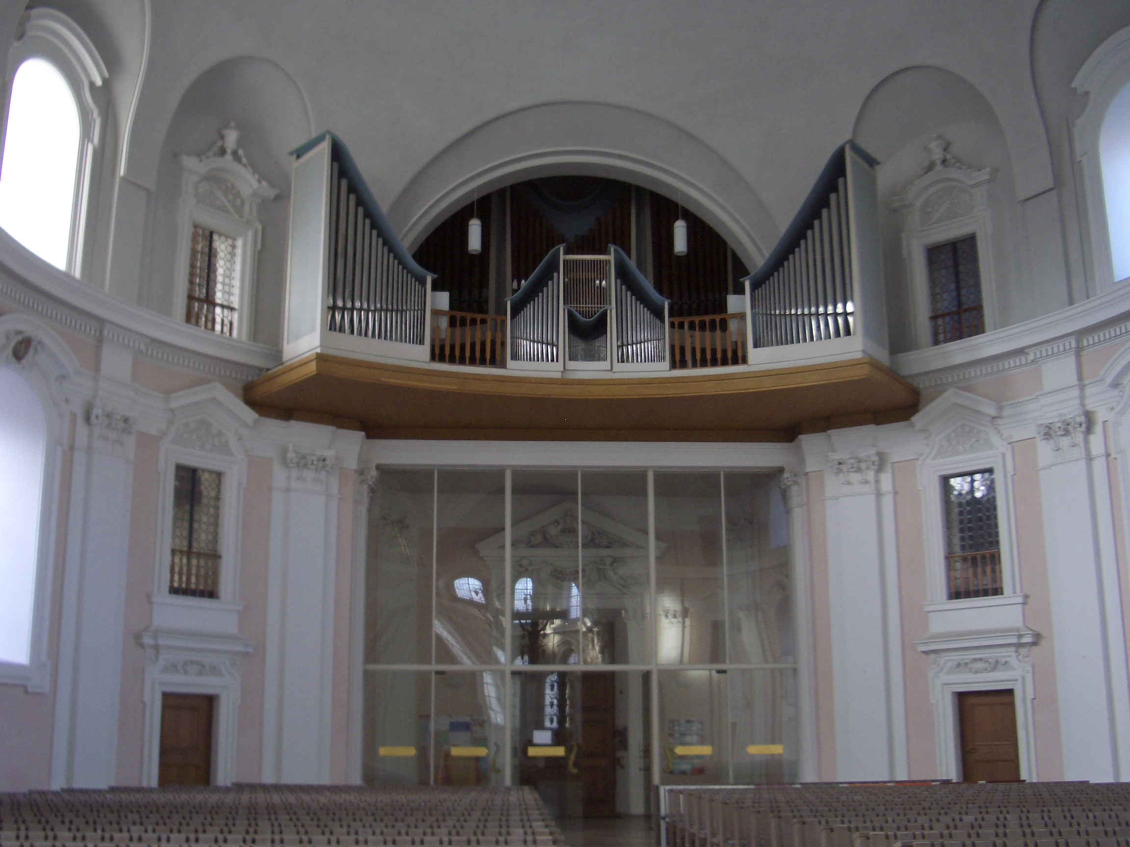 The organ in Egidienkirche, Nürnberg